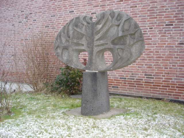 Baum-Blatt-Motiv, skulptur, Kirchheimer Muschelkalk (top part), basalt stone (basic part), 1963, sculptor: Ulrich Beier (1928-1981), view from the side, location: Fridtjof-Nansen-School (Integrierte Gesamtschule Flensburg)